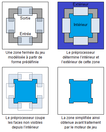 Diagram explaining how the preprocessor of the video game Quake (1996) operates.